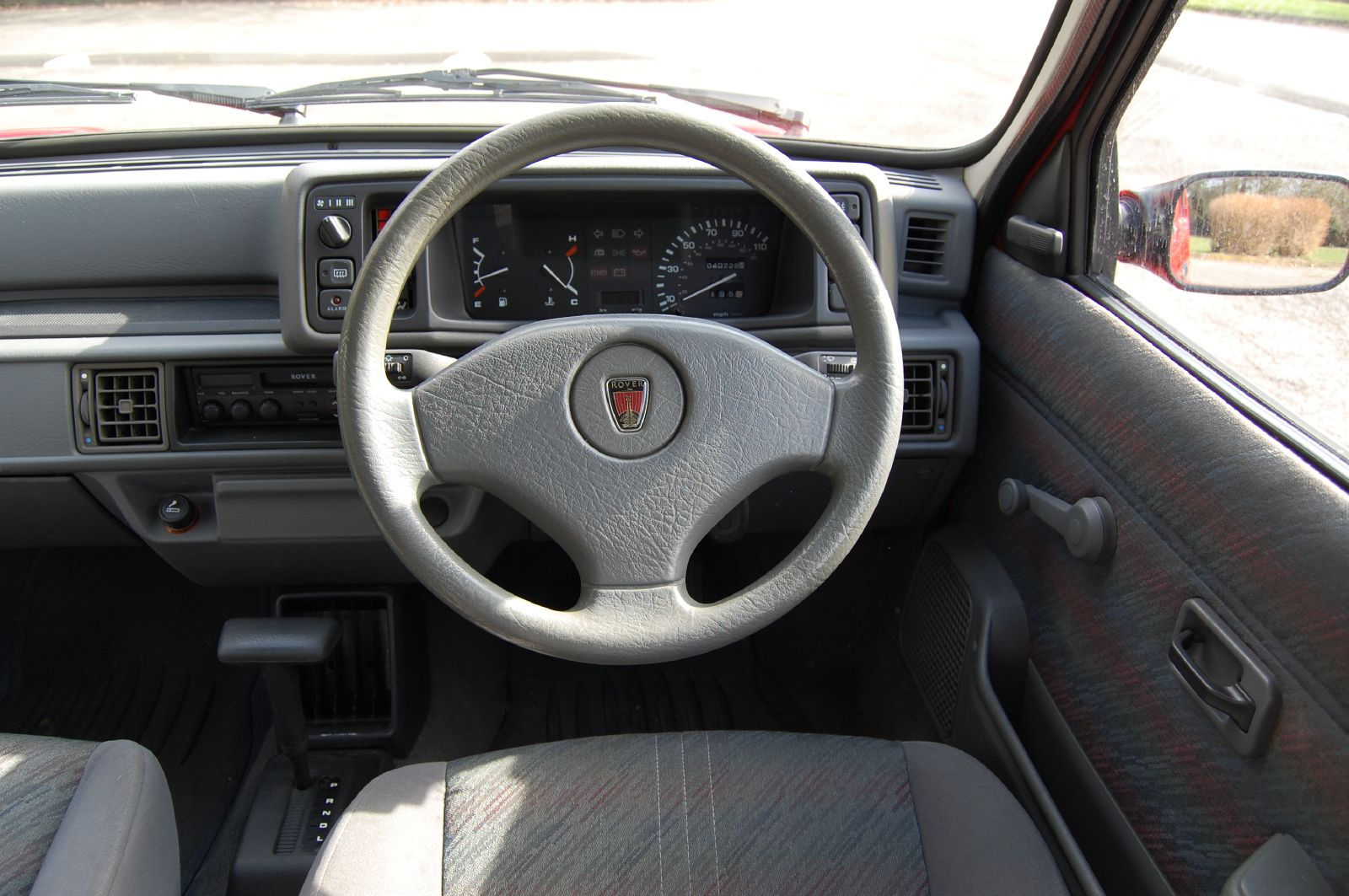 Interior of a 1994 Rover Metro 1.4 Li Automatic